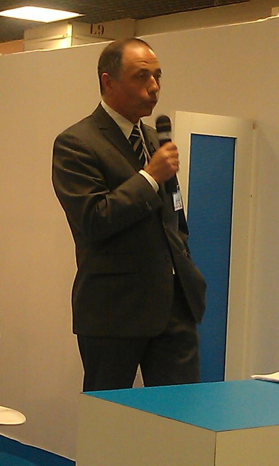 Benoit Roy lors d'un congrès de l'UNSAF